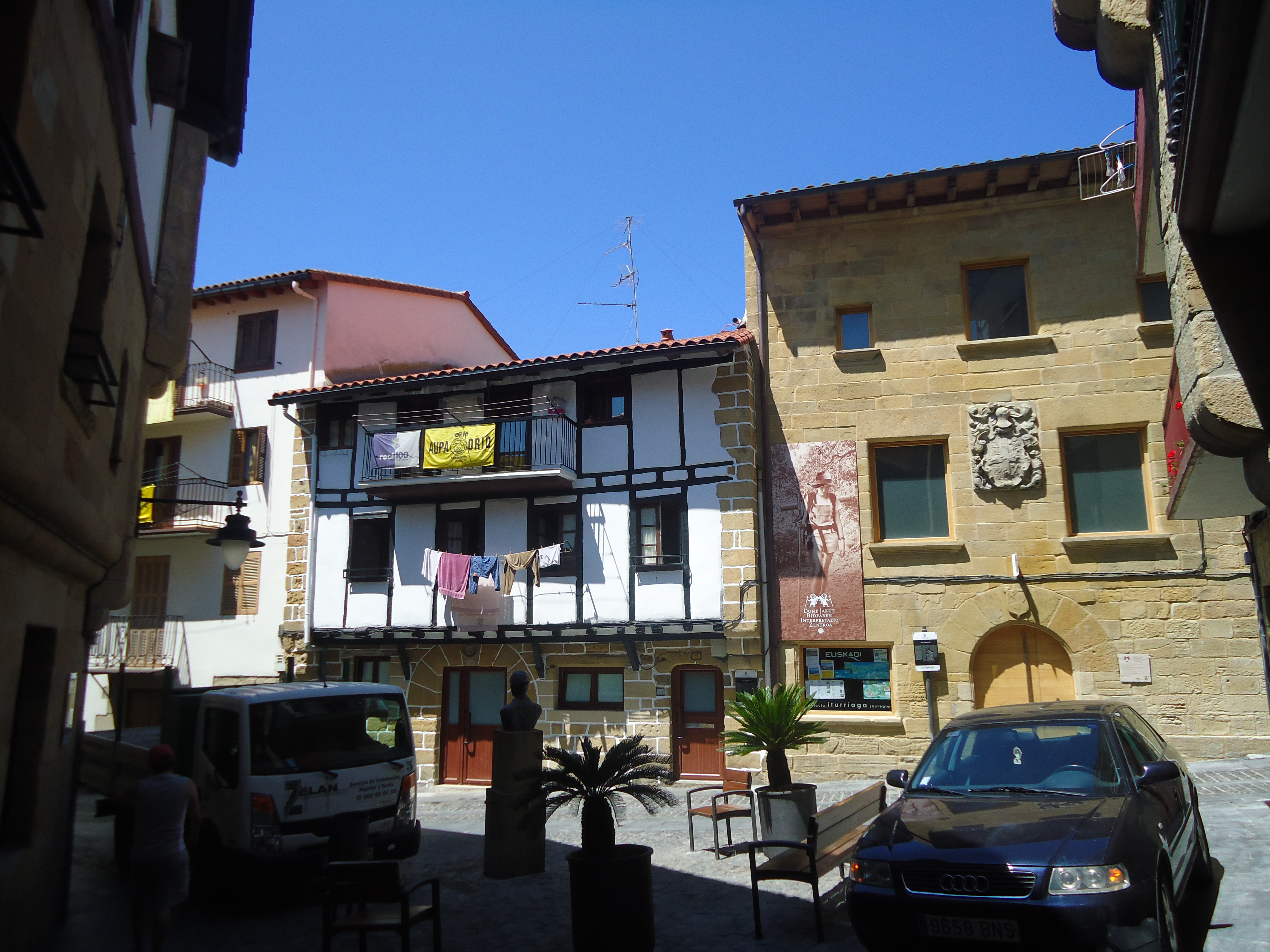 Pilliku plaza in Orio (Gipuzkoa, Basque Country)